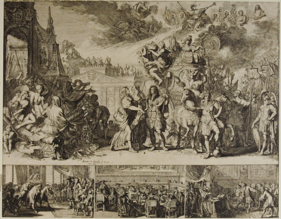 Arnhem, betweeen 20 jan and 15 feb the accepting of William III as new leader of Guelre and Zutphen